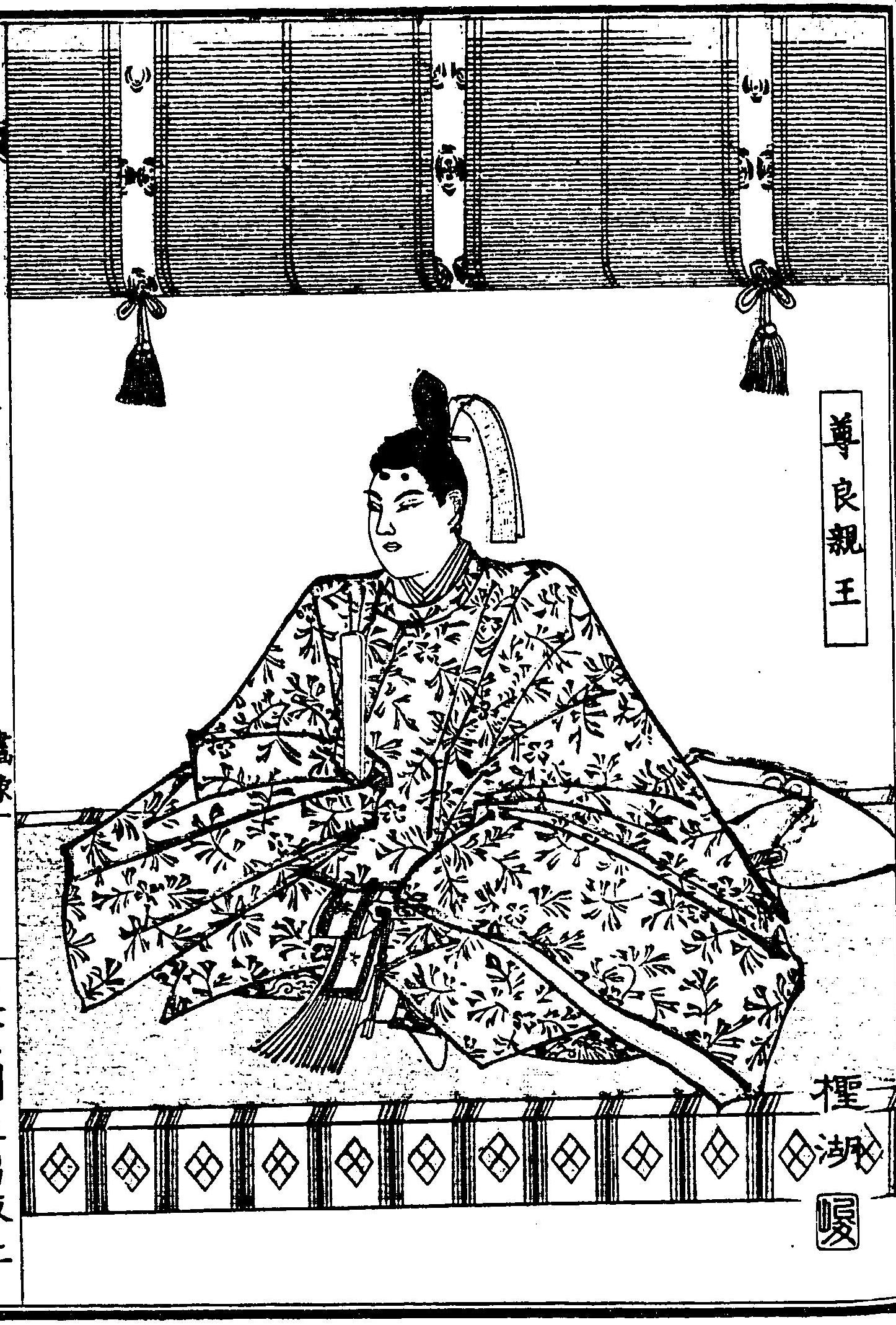 A portrait of Prince Takayoshi, the first son of Emperor Go-Daigo. From Ehon Taiheiki, 1883, drawn by Kobayashi Teiko. National Diet Library Digital Collections.